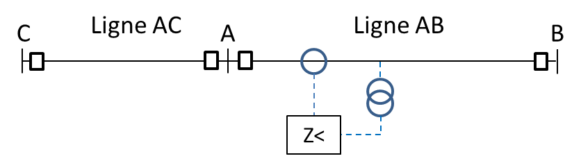 Protective relays and points to describe the lines.